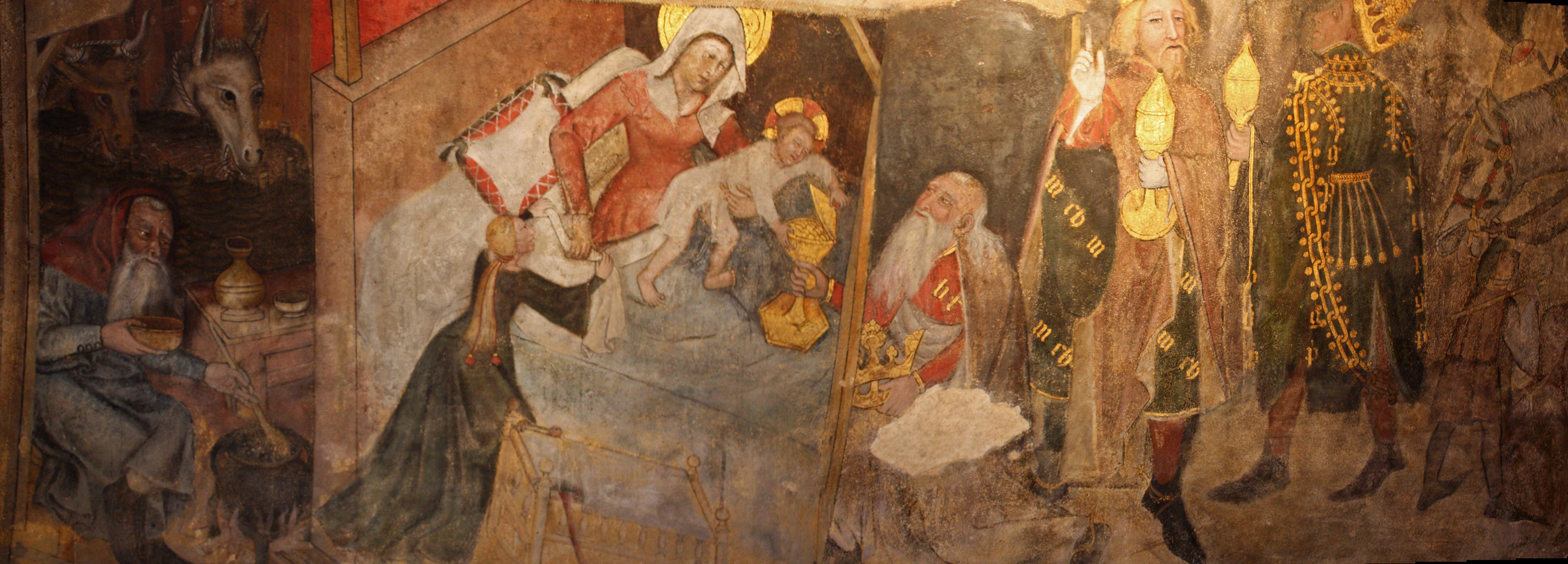 Panoramic of right wall, the Epiphany in two tables: a Nativity with a virgin, sitting up in bed, pulled the blanket and brown hair; juxtaposed with the Adoration of the Magi. And during that time, Joseph prepares the meal! ..